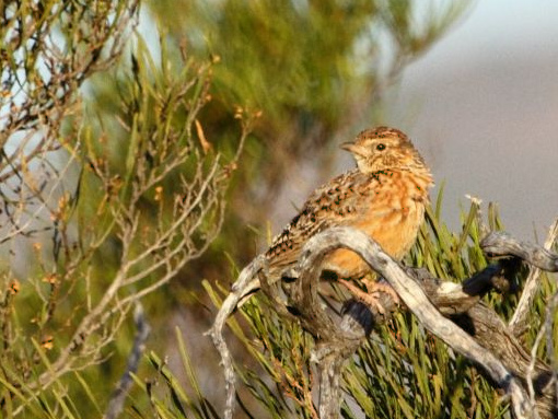 Cape Clapper Lark (Mirafra_apiata) at Skilpad, Namaqua National Park, South Africa